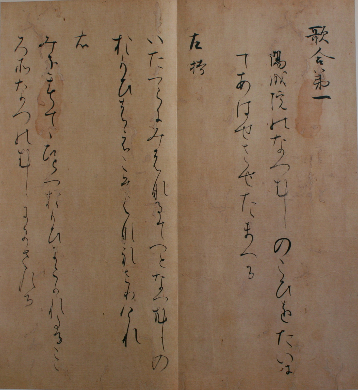 Poetry Contest (UTAAWASE), ten volume edition, 1st Volume, ink onpaper, 29cm height. Heian period, 11th century , Maeda IkutokukaiMaeda Ikutokukai, Tokyo